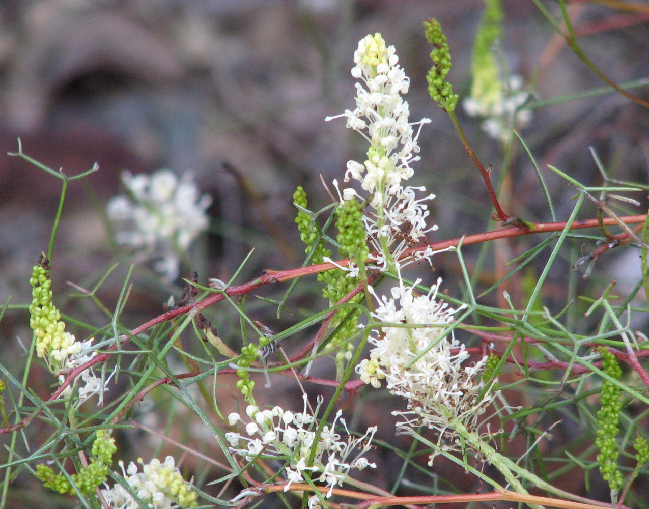 Grevillea intricata (cultivated, labelled) Maranoa Gardens, Balwyn, Victoria, Australia